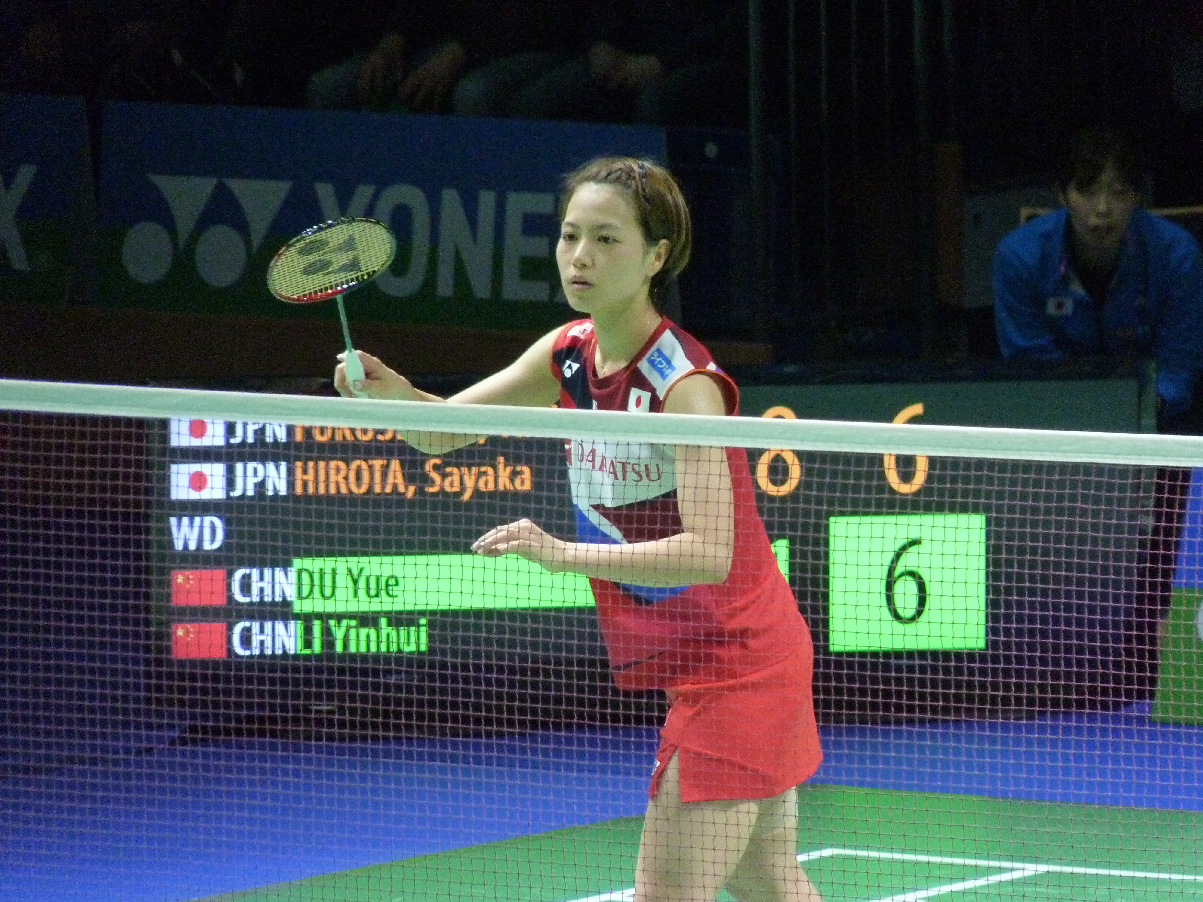 Yuki Fukushima (Japan) BWF Women's Doubles World Champion 2017 & 2018